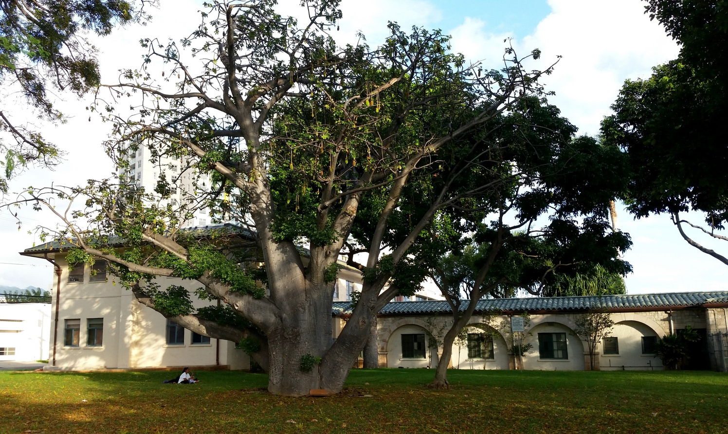 Adansonia digitata, Baobab, at the Hawaii State Department of Agriculture, King and Ke'eaumoku in Honolulu